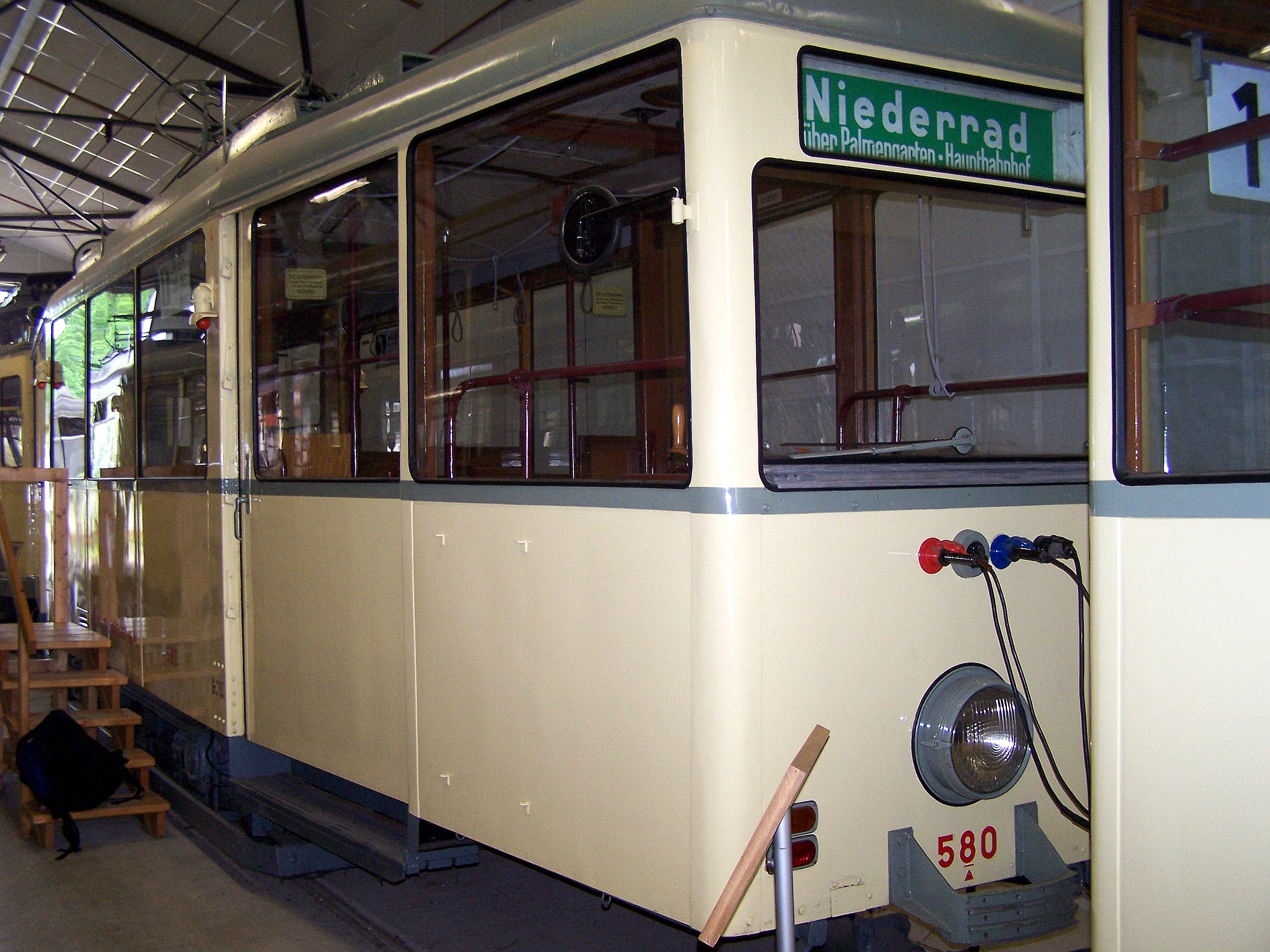 tram type J No 580 in the Frankfurt on Main Transport Museum in Frankfurt am Main--Schwanheim